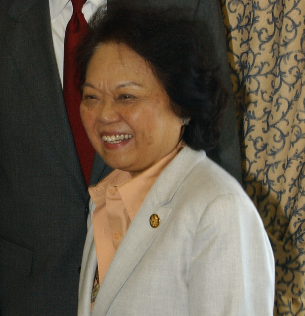 National Archives Identifier: 6179794 Local Identifier: 207-DP-8386B-DSC_0064.JPG Creator(s): Department of Housing and Urban Development. Office of the Chief Human Capital Office. Office of Broadcasting Operations. Photo Section. (ca. 2011 - ca. 7/18/2014) (Most Recent) Department of Housing and Urban Development. Office of the Assistant Secretary for Administration. Office of the Deputy Assistant Secretary for Budget and Administrative Support. Office of Administrative and Management Services. Multimedia Division. Publications Branch. Multimedia Library, (2003 - 2010) (Predecessor) From: File Unit: 207-DP-8386B - Secretary Mel Martinez with Congresswoman Patsy Mink, 2001 - 2014 Series: Photographs Documenting the Secretary's Headquarters and Field Activities, and Agency Officials and Events, 2001 - 2014 Record Group 207: General Records of the Department of Housing and Urban Development, 1931 - 2003